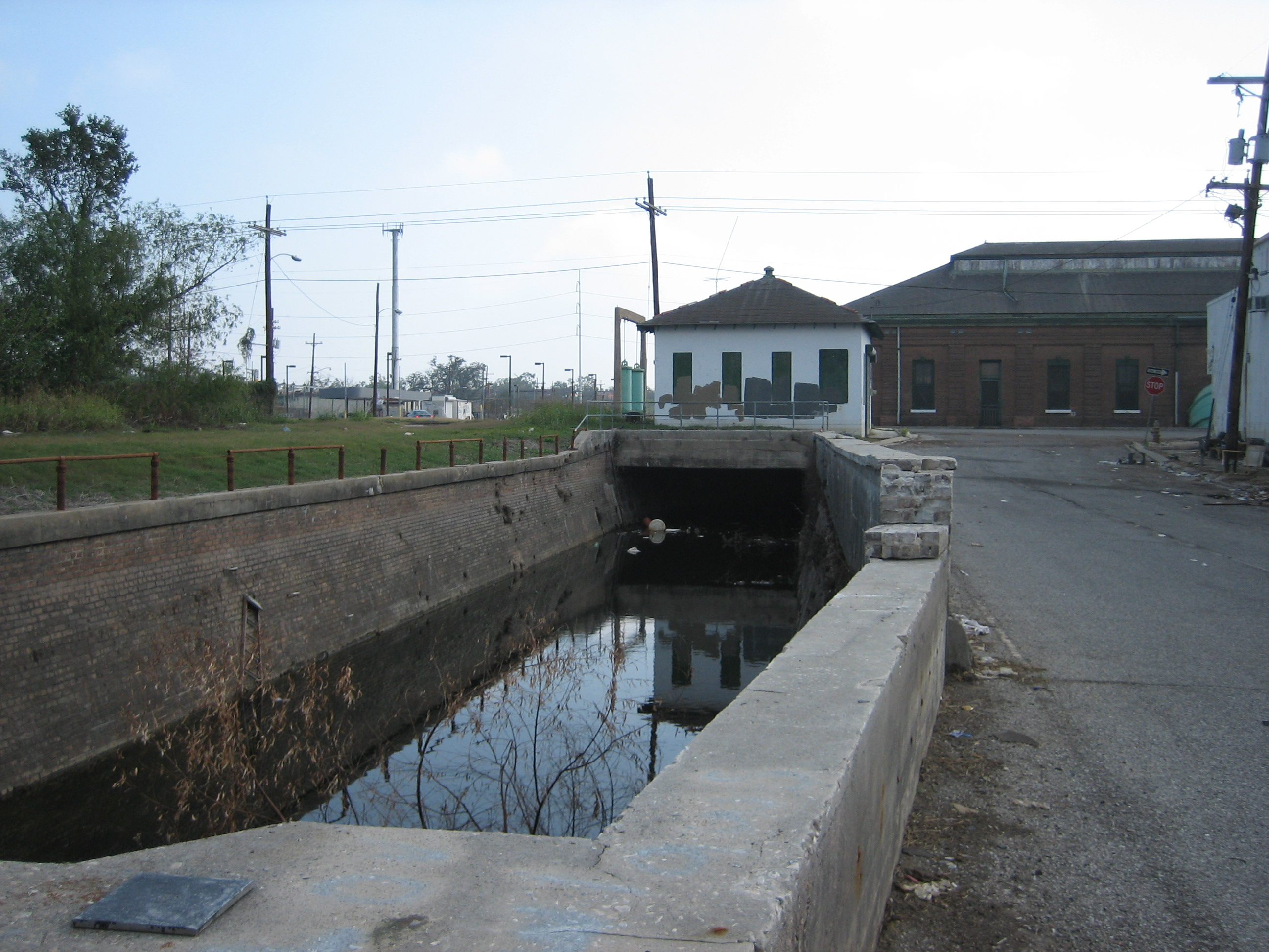 New Orleans: Old drainage canal and pumping station, in back of Broad Street near Saint Louis Street. Now part of the city drainage system, remenent of the old Carondolet Canal of 200+ years earlier.